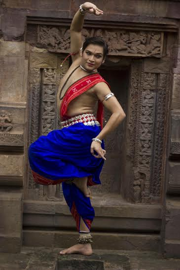 Saswat Joshi